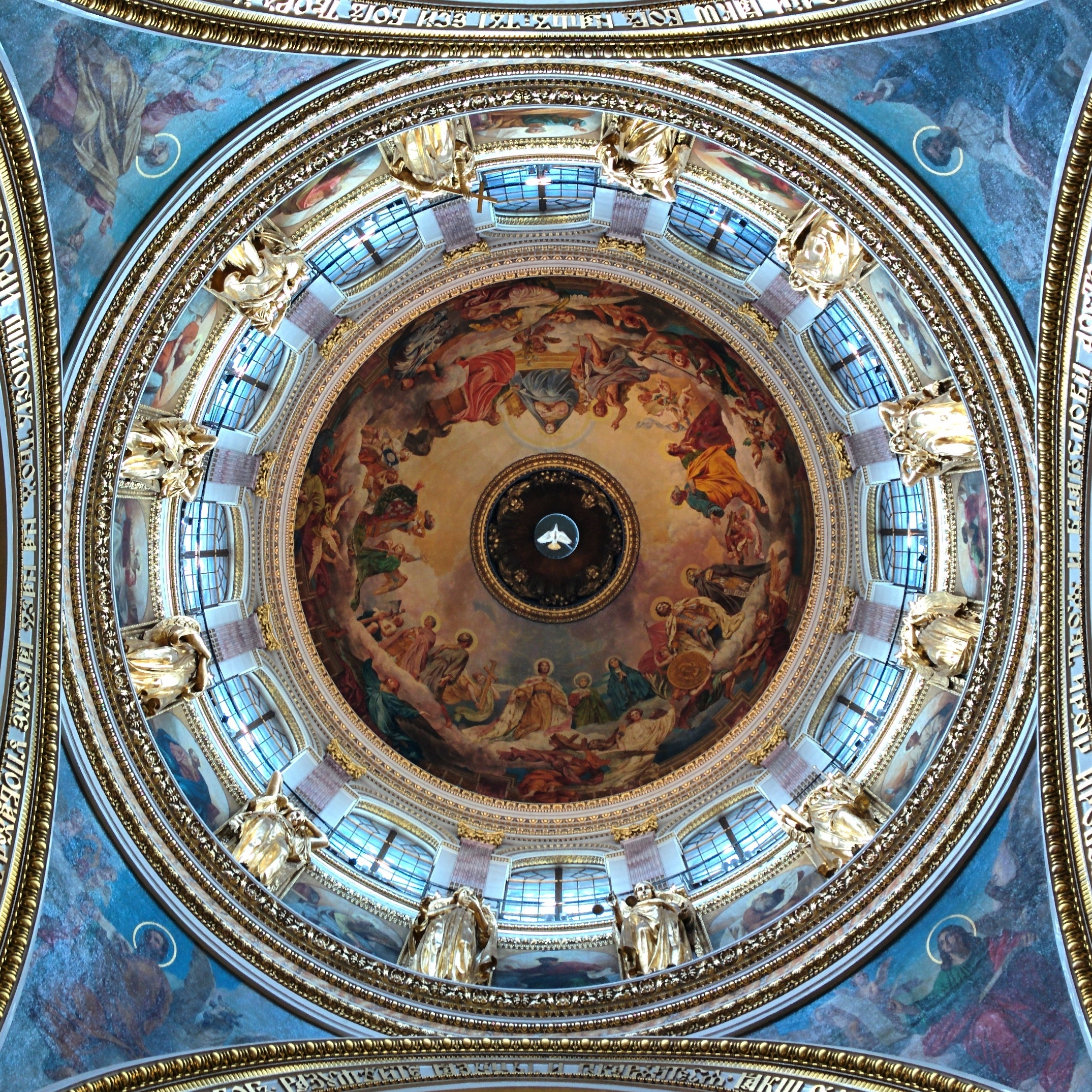 The ceiling of the main dome of St. Isaac's Cathedral in Saint Petersburg